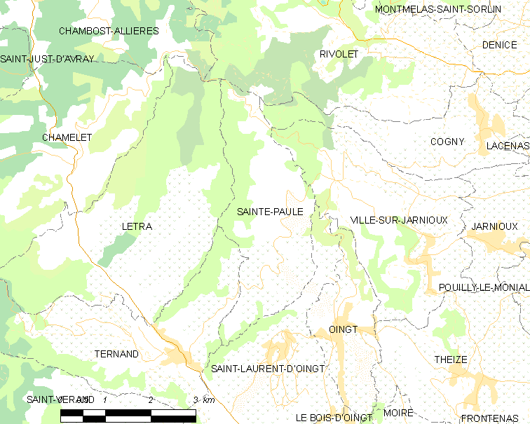 Map of French municipality